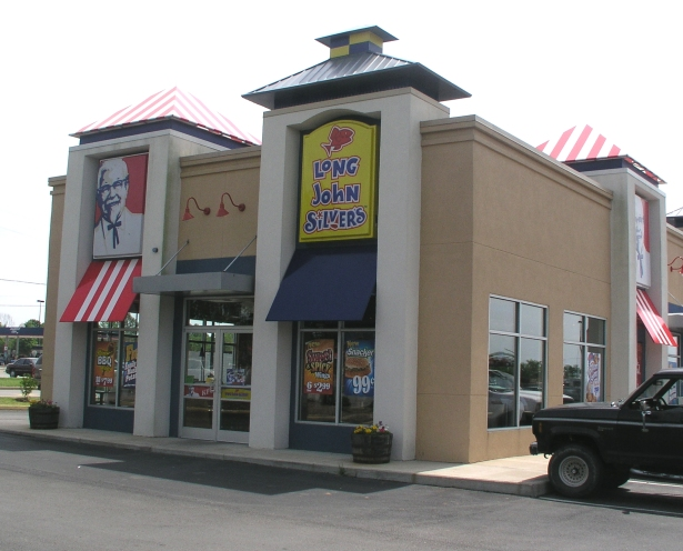 A co-branded KFC and Long John Silvers in Lafayette, TN. Photo taken on May 6, 2006 by Ichabod 一間肯德基和海客滋的品牌結合餐廳。